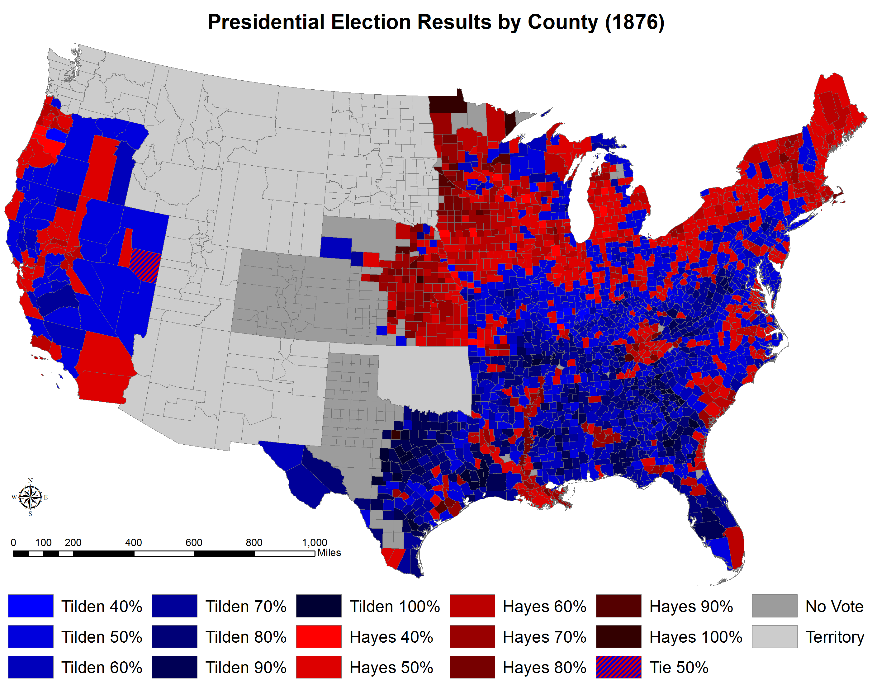 Presidential election results by county (1876).